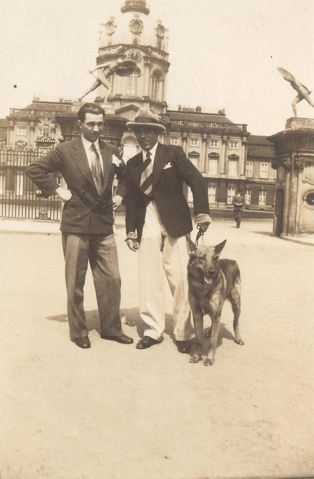 Asparuh (Ari) Leshnikov with his dog Klaus in front of Stern Conservatory, Berlin.